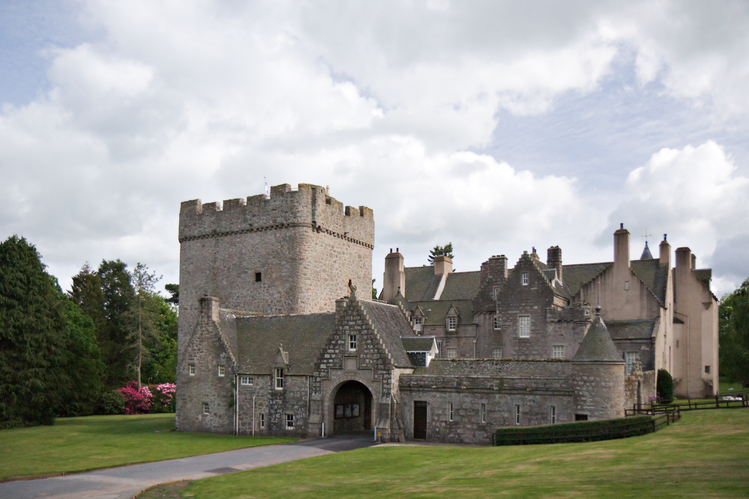 Drum Castle; Aberdeenshire, Scotland